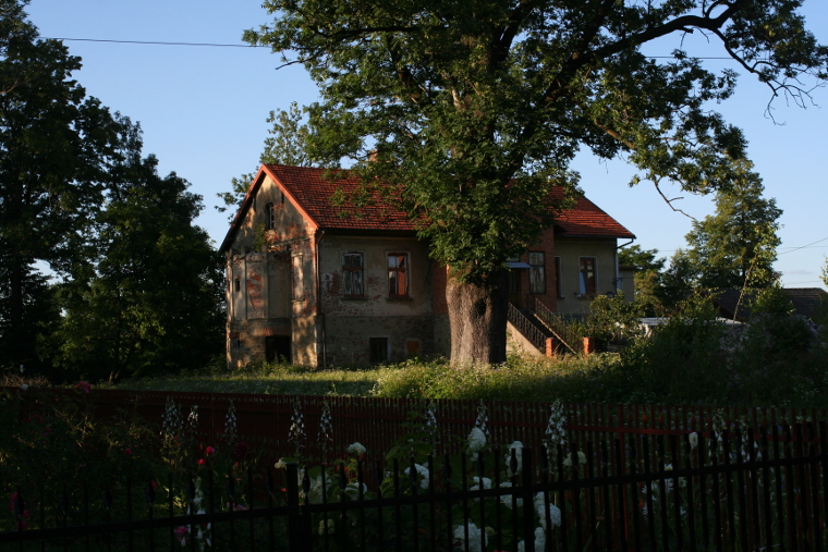 Pozostałości dworu w Woli Łużańskiej, dawnej siedziby Potockich